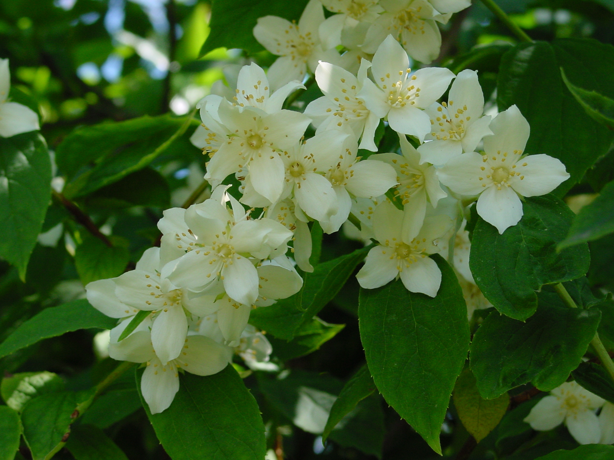 Sweet Mock-orange